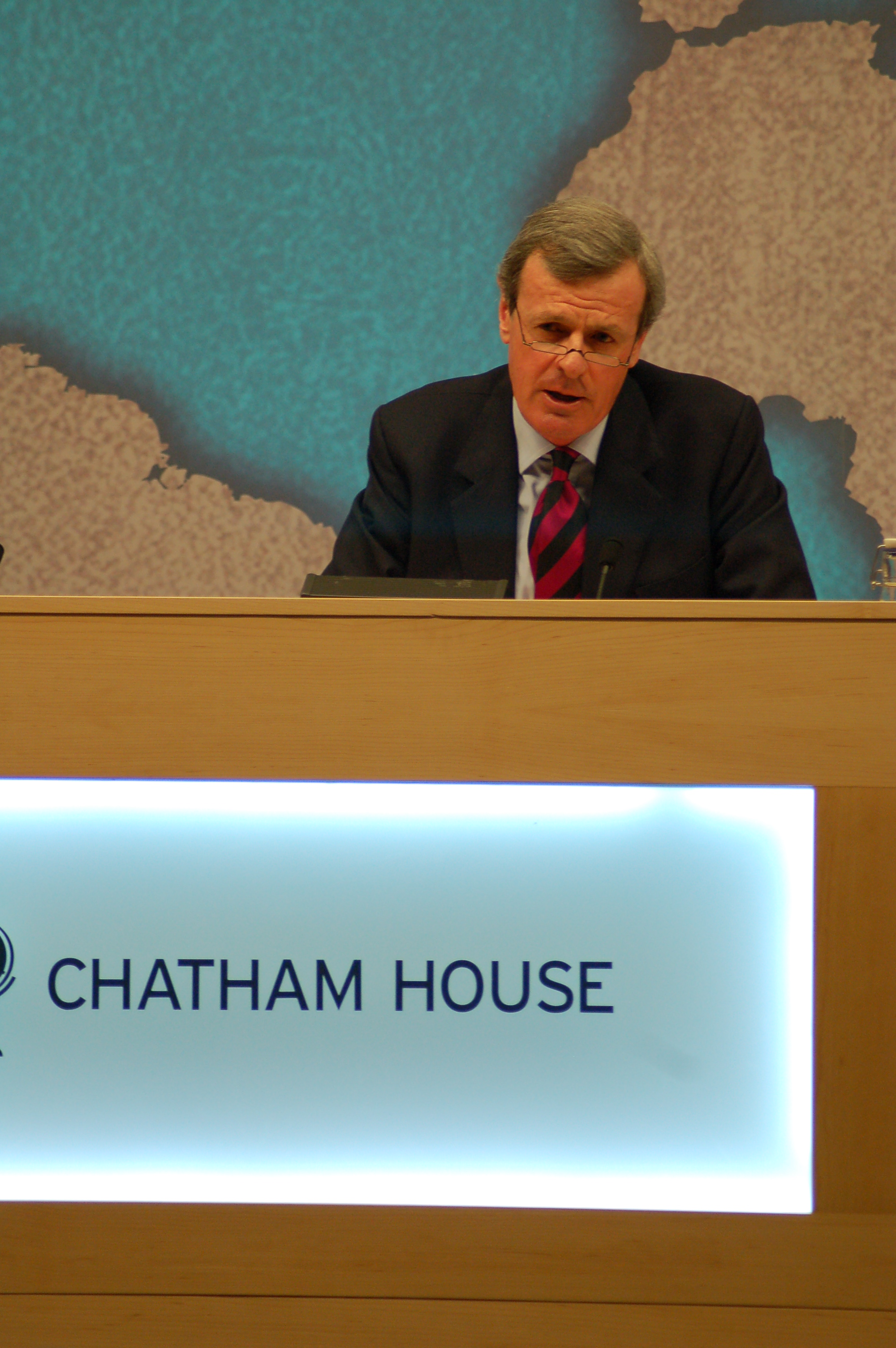 Lt Gen Sir Richard Shirreff